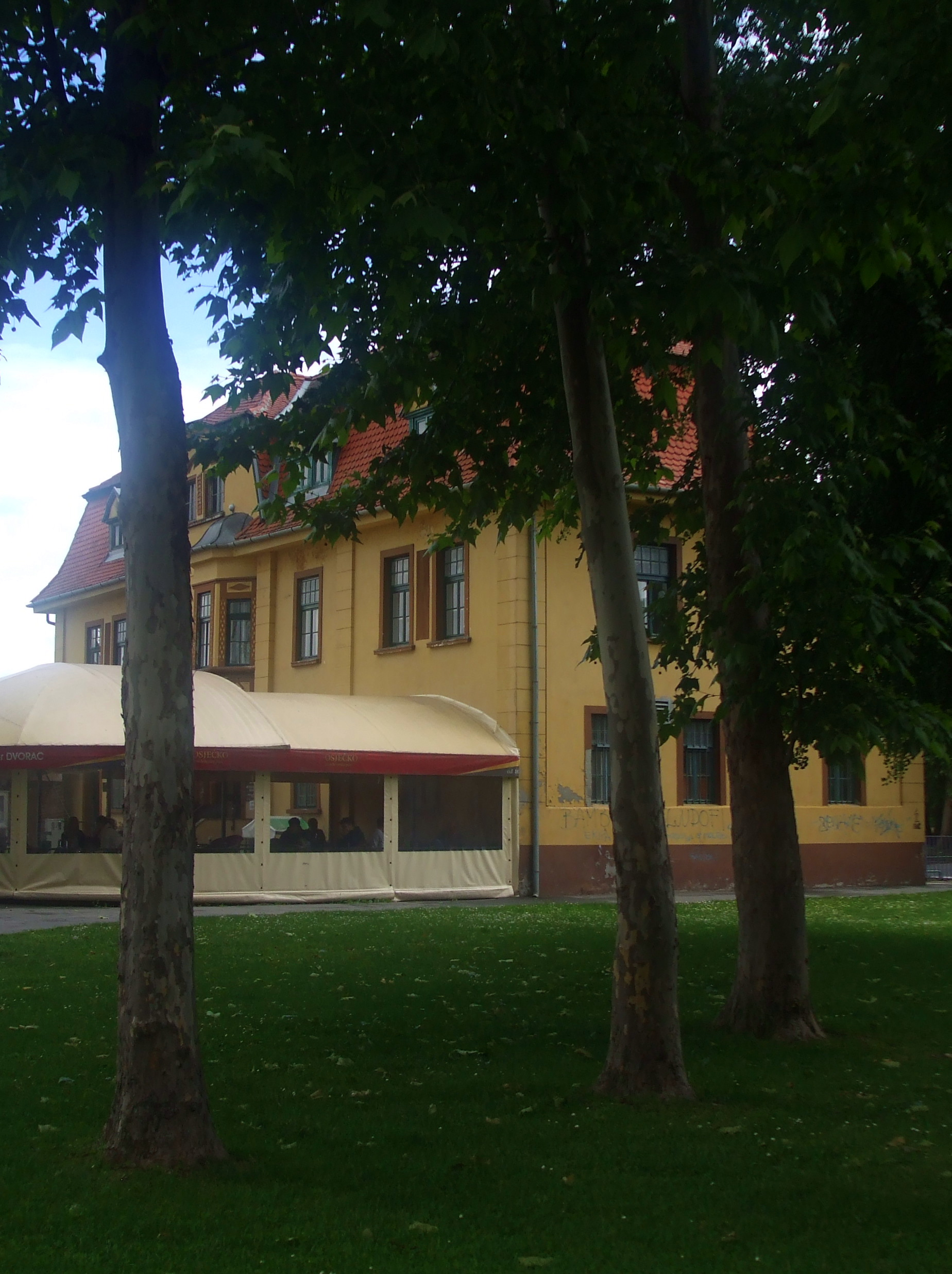 Mačkamama (cat's mother) house in Osijek, Croatia.